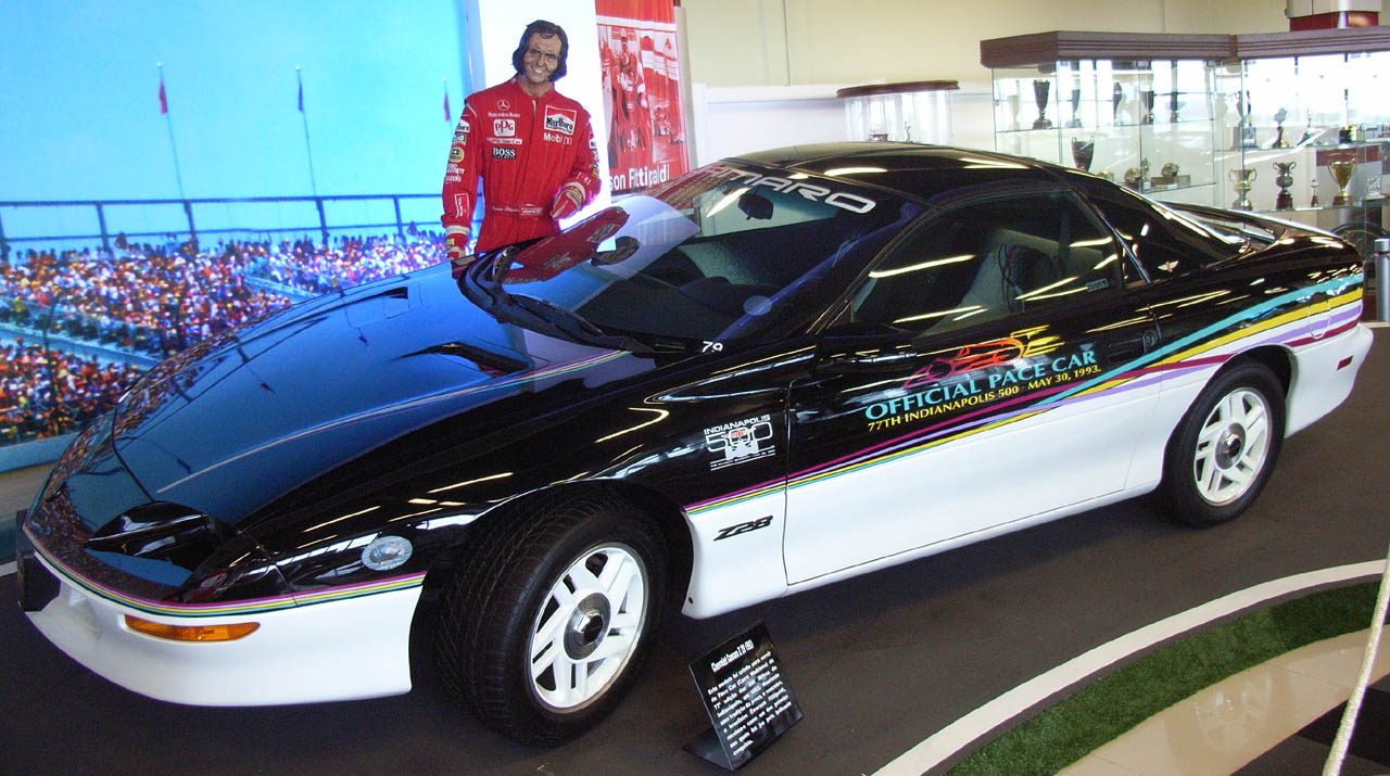 1993 Indianapolis 500 pace car: Chevrolet Camaro Z28 (Driver: Jim Perkins[1]). The winning driver of the race in this year, Emerson Fittipaldi got it as a prize after the race.Owner: Museu da Tecnologia da Ulbra